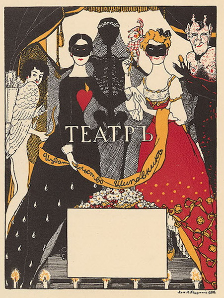 Title page of Alexander Blok's book Theatre (1909) as designed by Konstantin Somov.